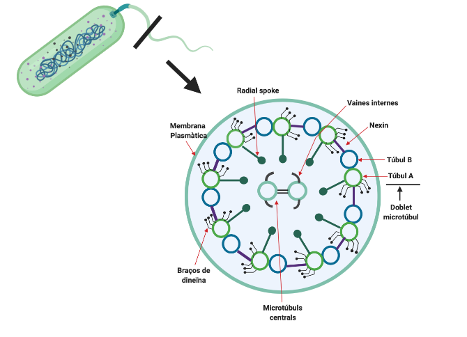 Secció d'un axonema